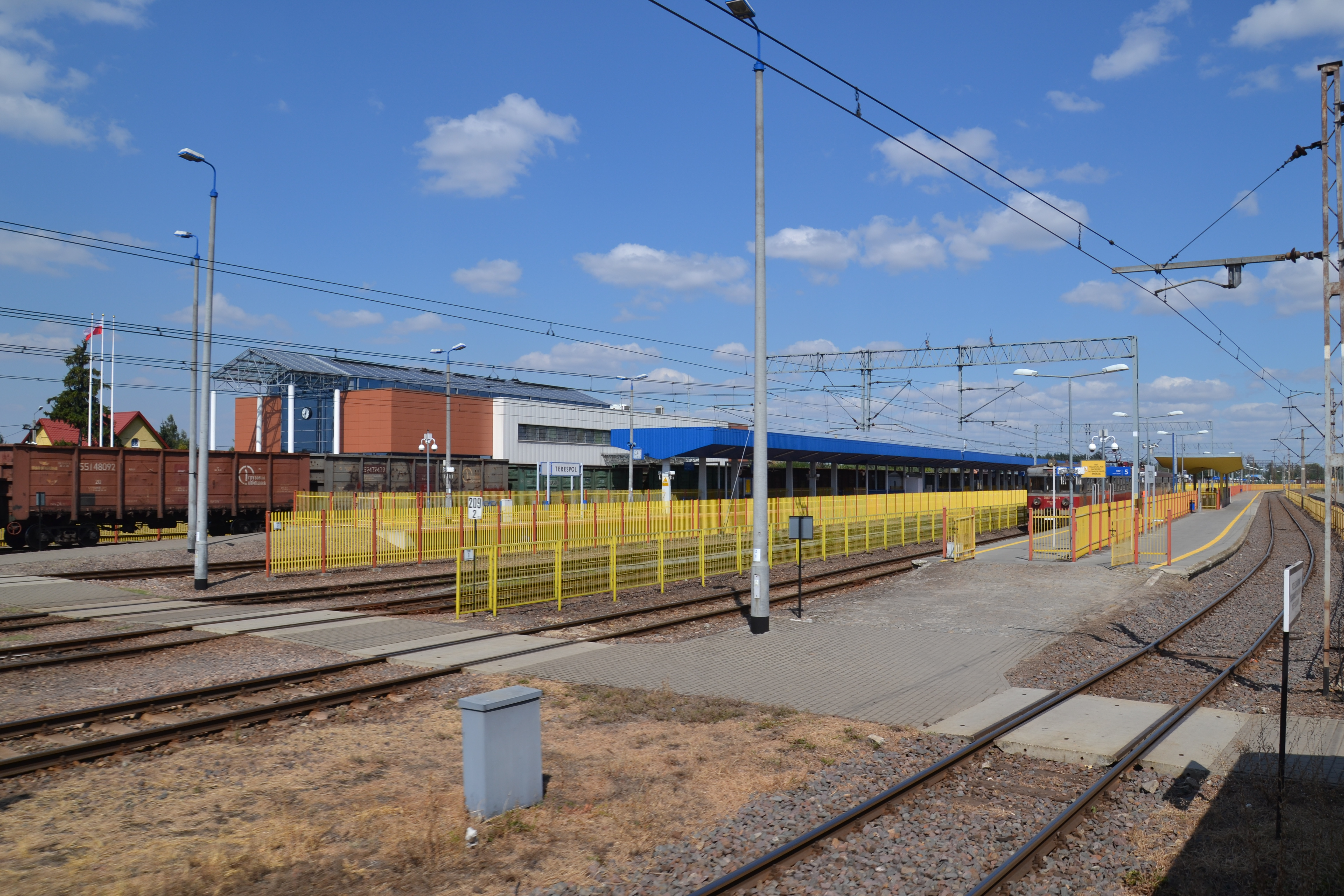 Widok stacji w Terespolu This photo was taken during Railway Wikiexpedition 2015 set up by Wikimedia Polska Association in cooperation with Fundacja Grupy PKP.You can see all photographs in category Wikiekspedycja kolejowa 2015.